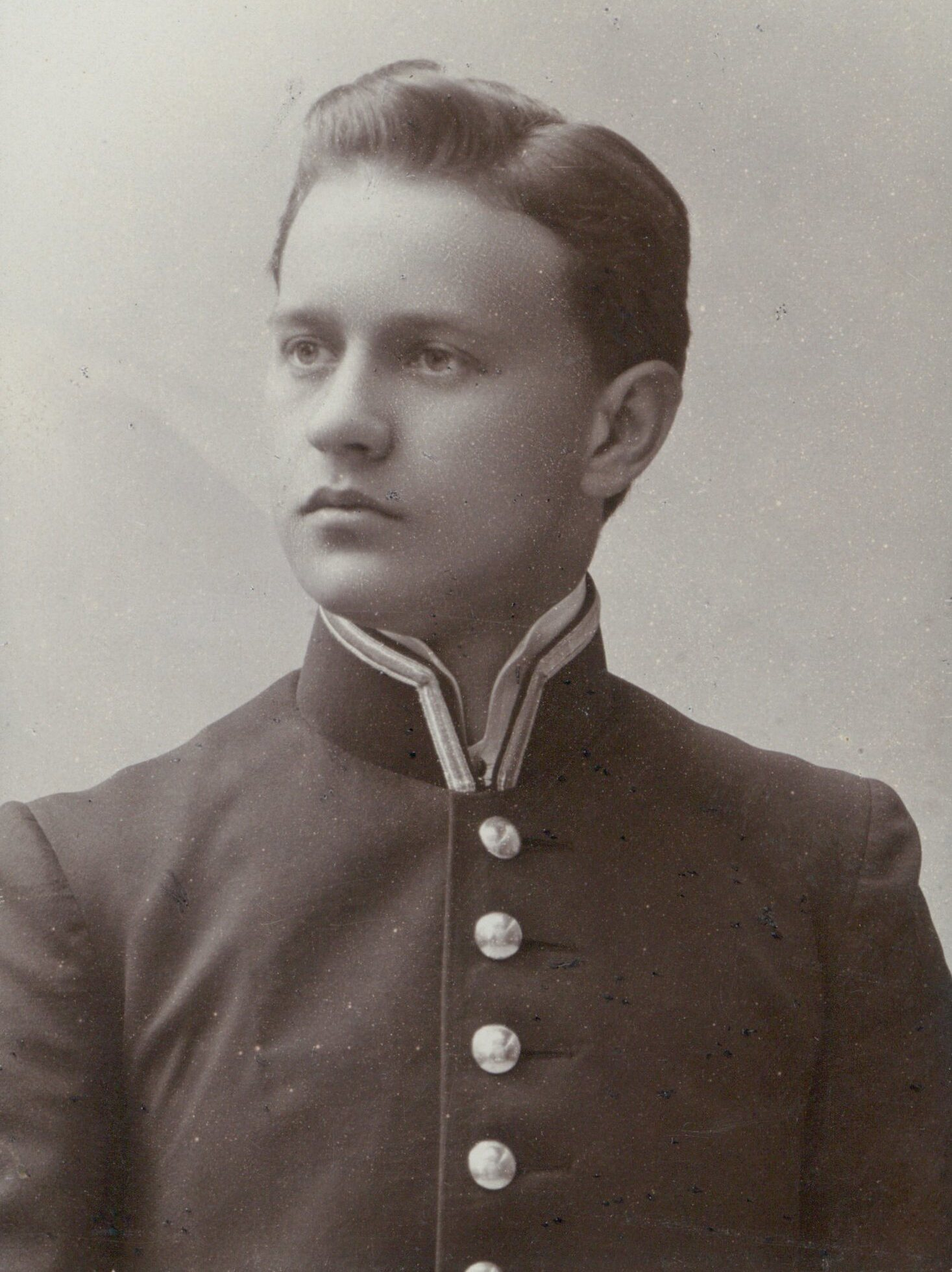 Alfred Bursche, ok. 1900 r.